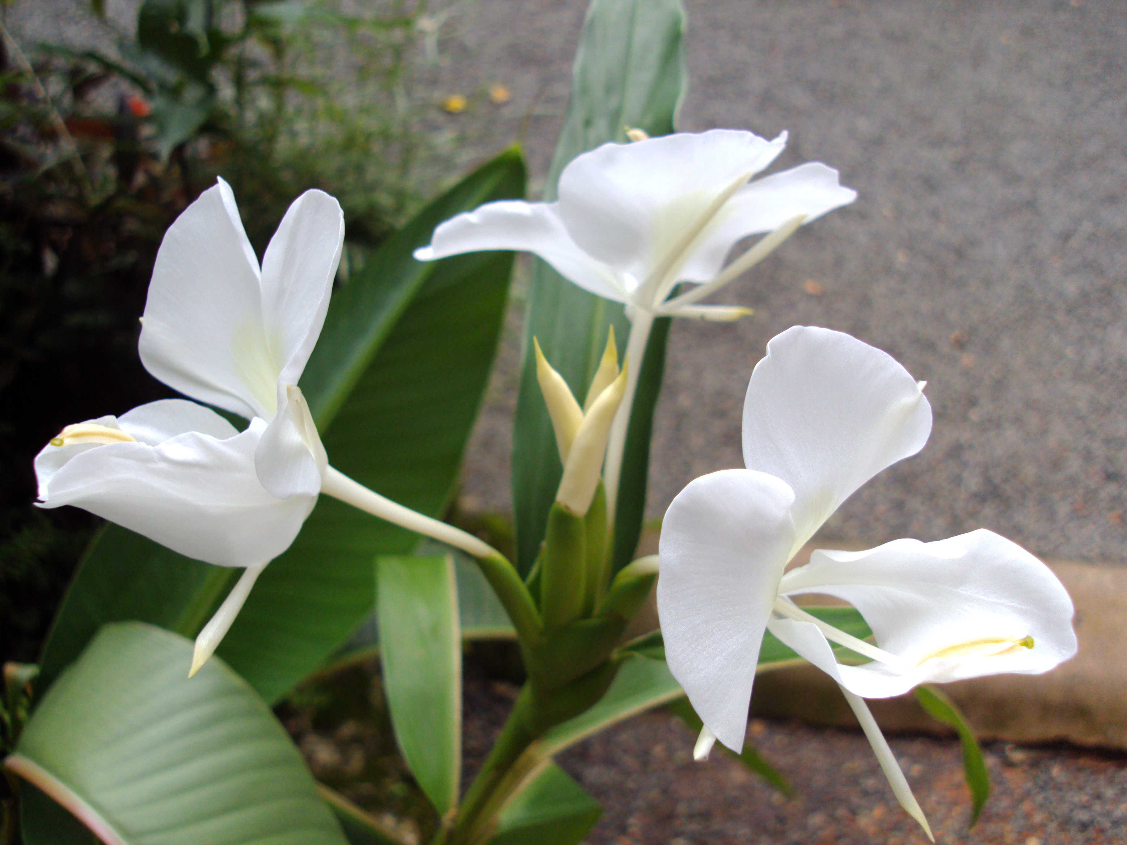 a white garden plant